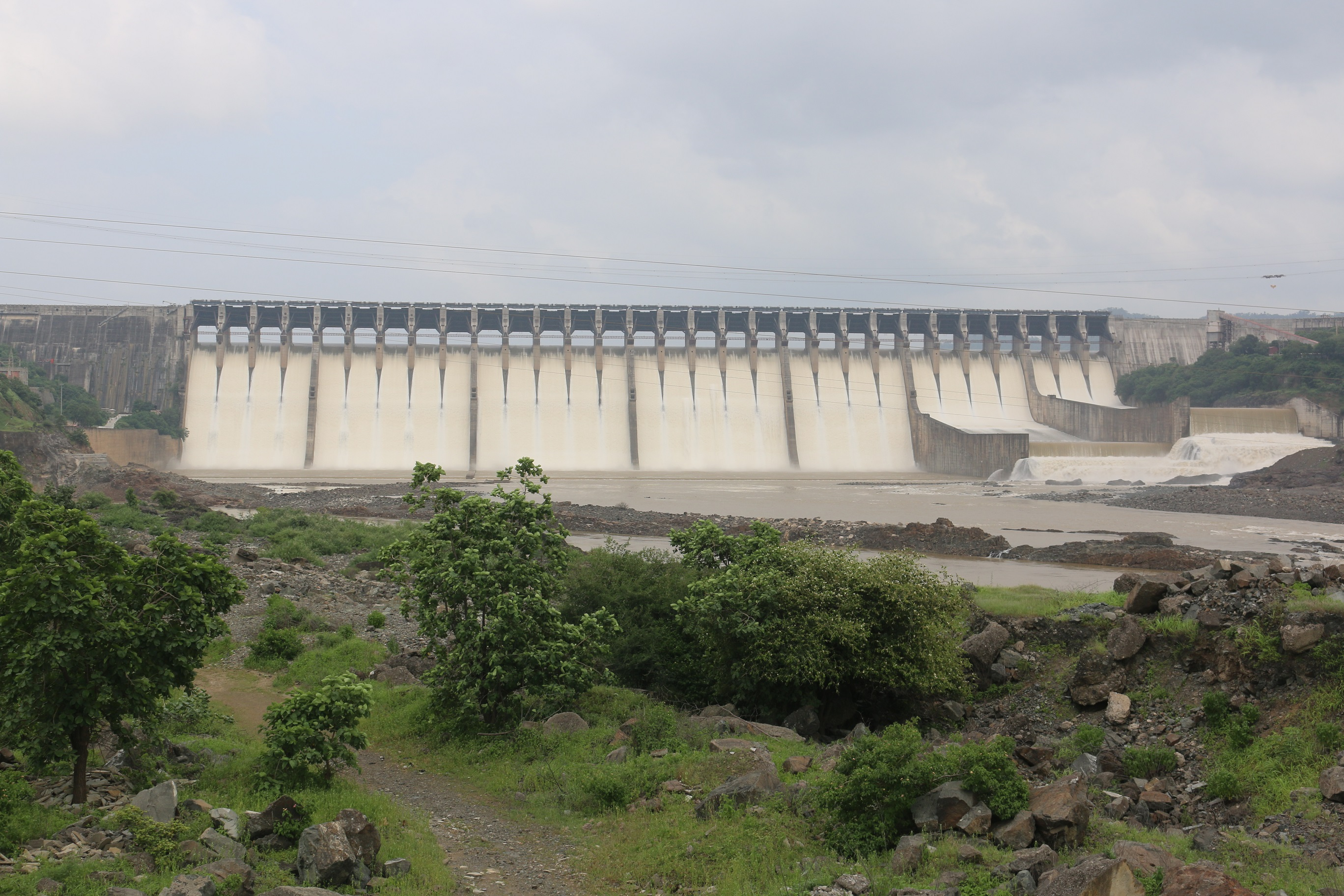 Frontview of Sardar Sarovar Dam